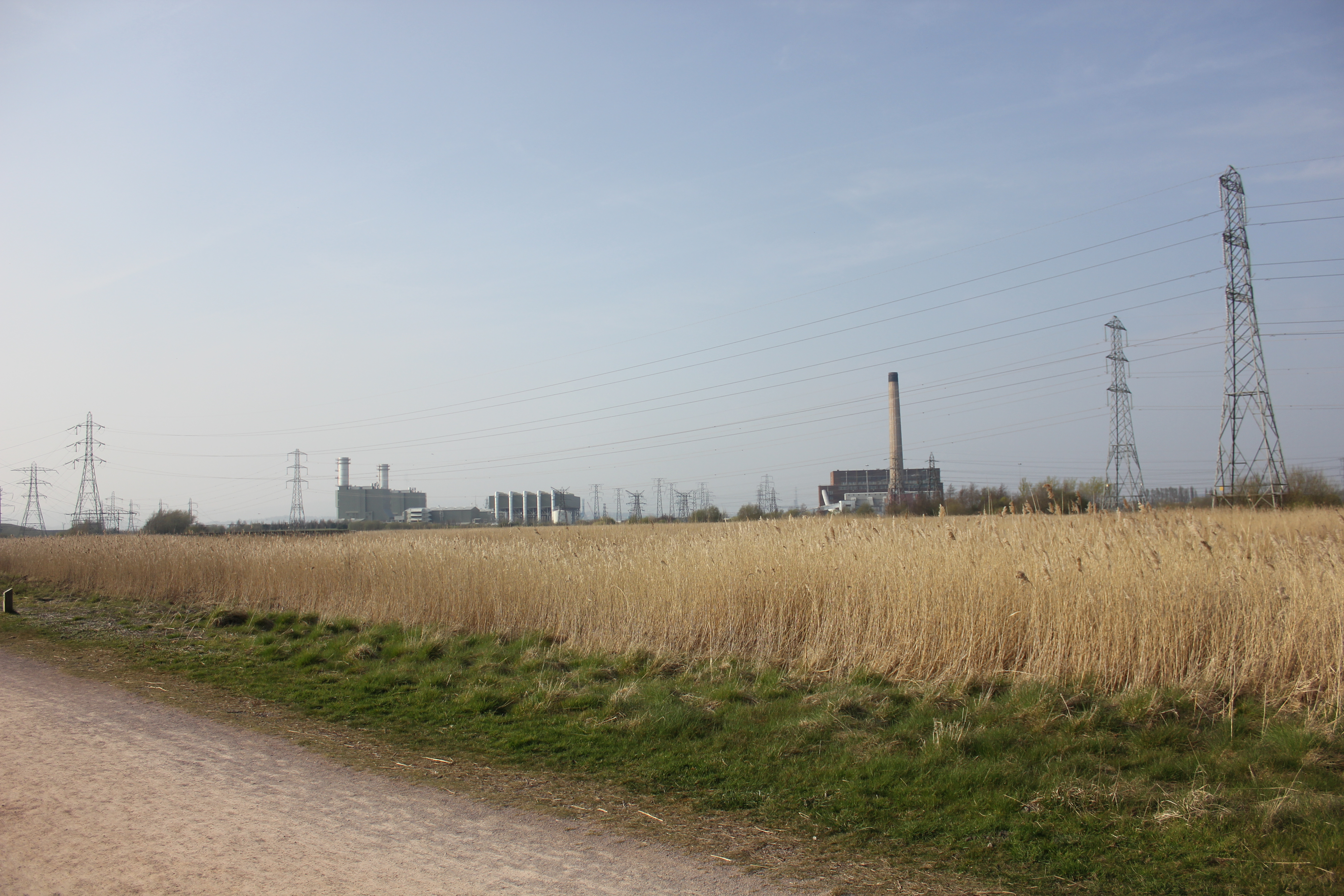 Gas-fired power station (left) and Uskmouth Power Station (right) from Newport Wetlands Centre, Newport, Wales